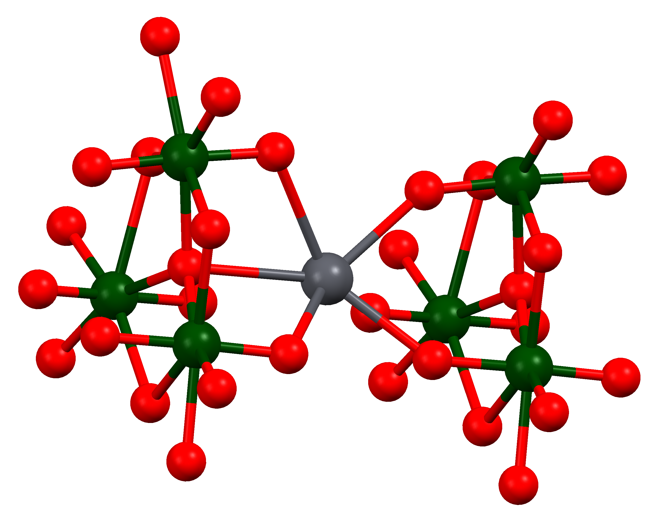 Coordination geometry of lead (grey) in masuyite, linking four uranyl-oxygens and one oxide ion (red).